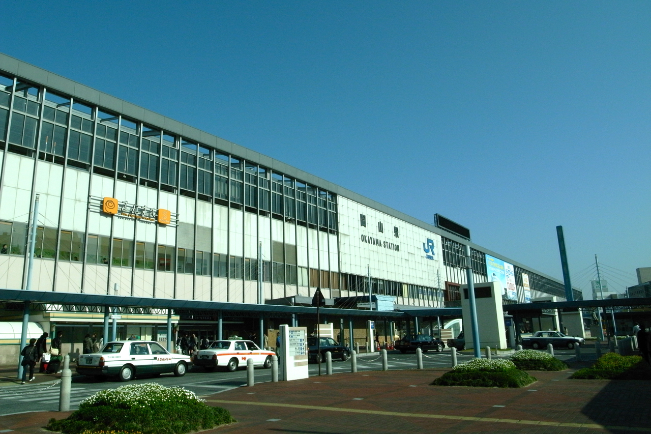 Okayama station east gate in Okayama, Japan.